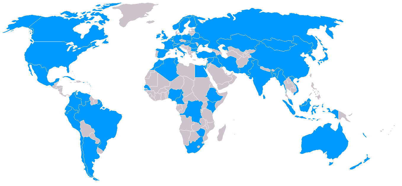 World Map of Member States of Conference on Disarmament (CD) in Geneva, Switzerland